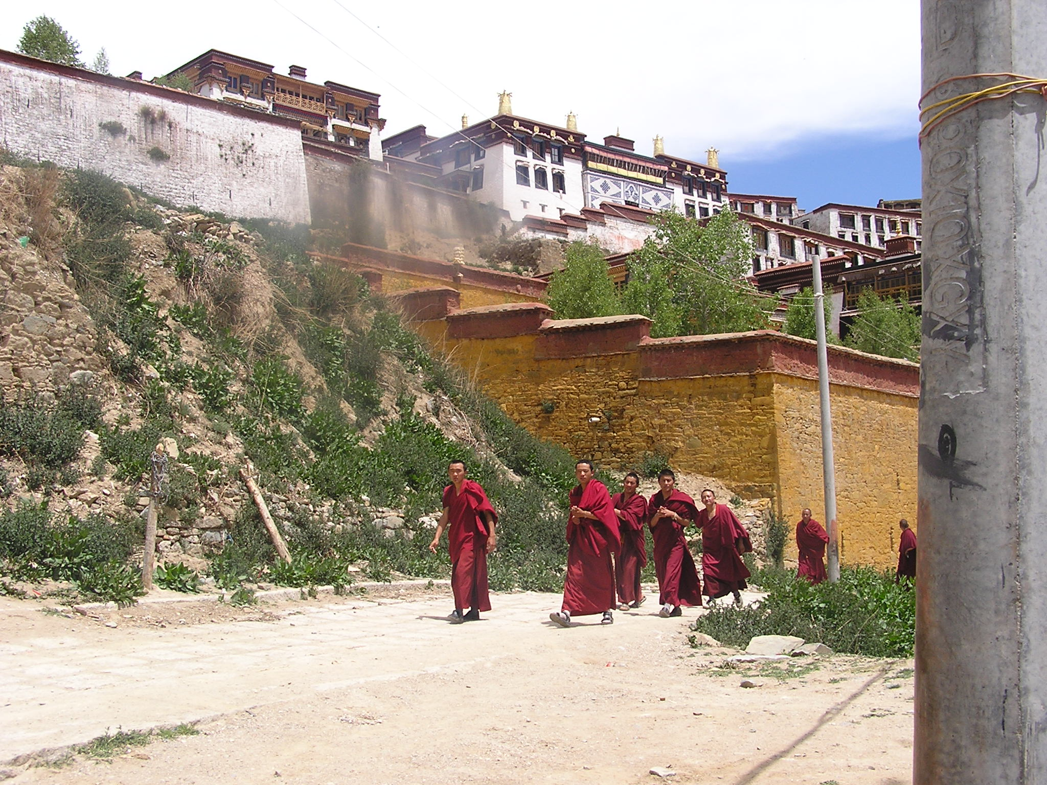 Ganden Monastery 15.